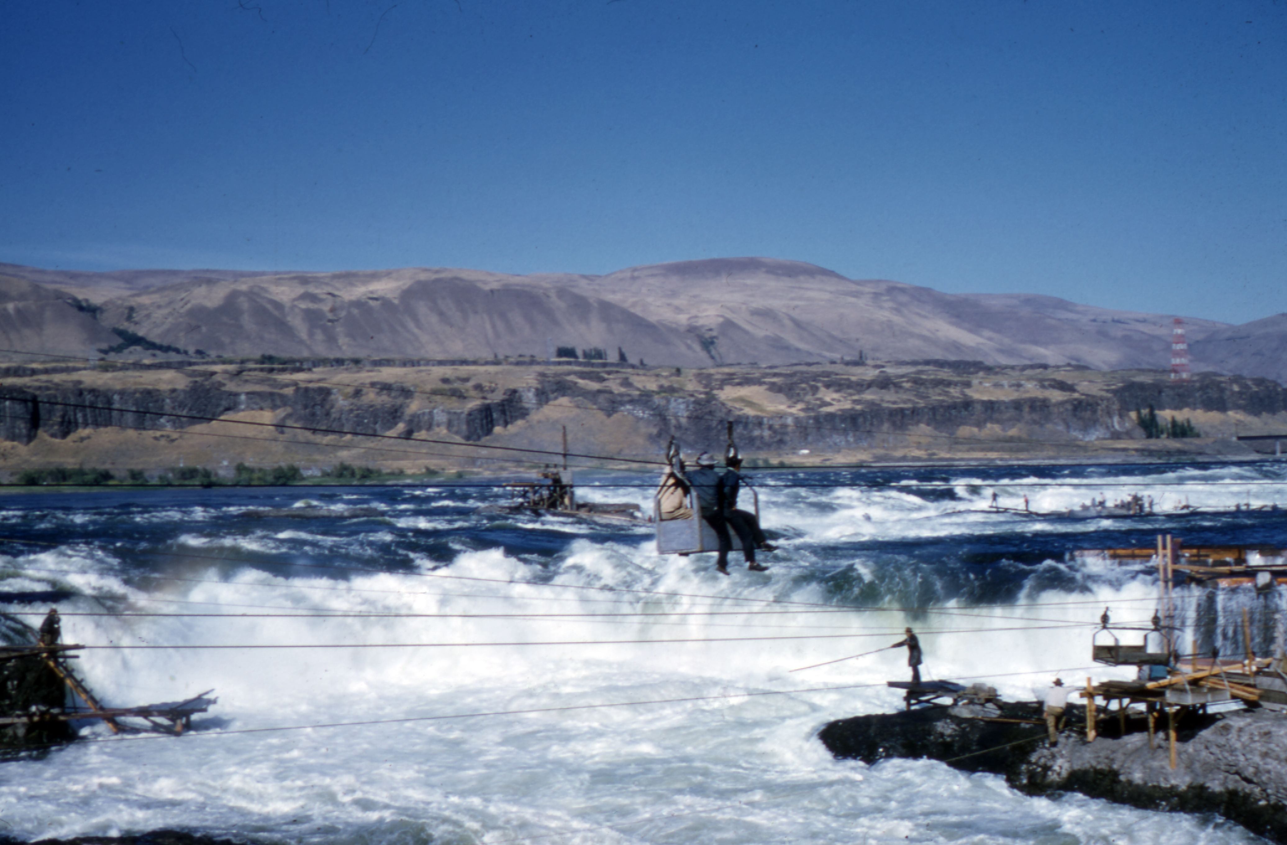 Description/Notes: Celilo Falls no longer exists today as it was covered completely when The Dalles Dam was completed. It was traditionally a fishing grounds for Native Americans. Original Collection: Gerald W. Williams Collection Item Number: WilliamsG_JW_Celilo Falls1 You can find this image by searching for the item number by clicking here. Want more? You can find more digital resources online. We're happy for you to share this digital image within the spirit of The Commons; however, certain restrictions on high quality reproductions of the original physical version may apply. To read more about what “no known restrictions” means, please visit the Special Collections & Archives website, or contact staff at the OSU Special Collections & Archives Research Center for details.